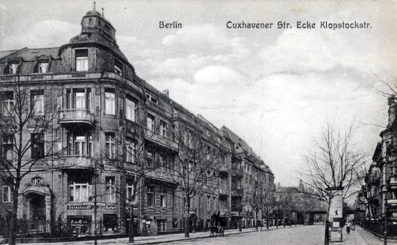 Cuxhavener-Strasse-Ecke-Klopstockstrasse